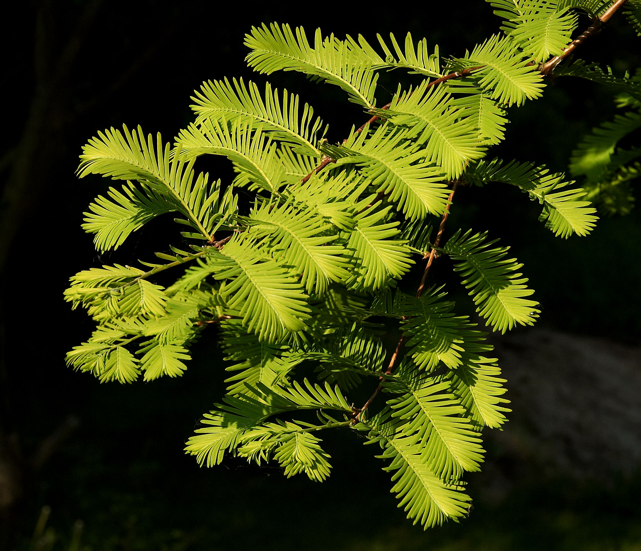 Dawn Redwood